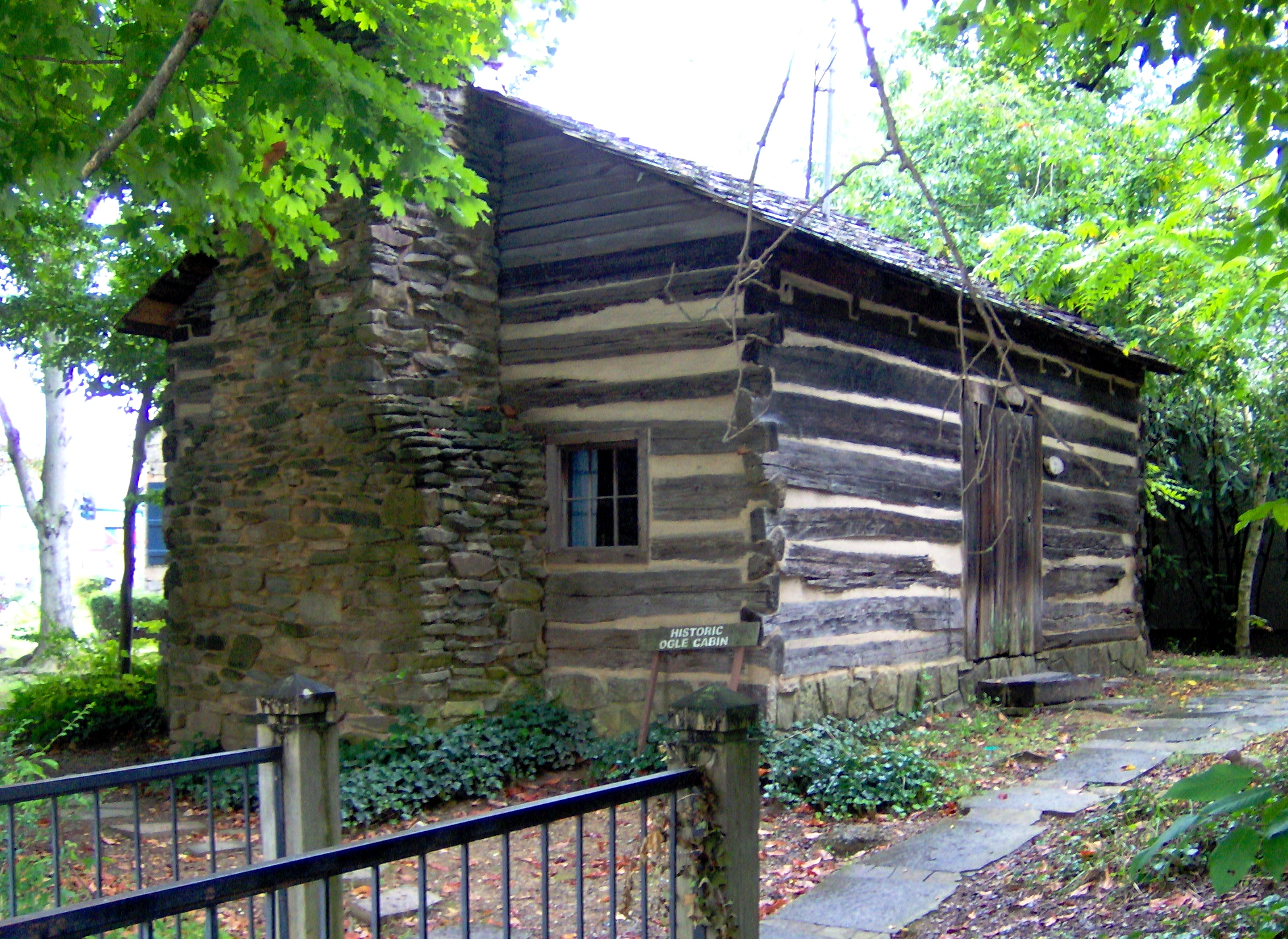 The William and Martha Jane Huskey Ogle Cabin in Gatlinburg, Tennessee, constructed ca. 1807. The cabin is now located on the Arrowmont campus, next to the Arrowcraft Shop. A plaque on the cabin's west wall reads: OGLE LOG CABIN Plaque donated by descendents of Thomas-Hercules-William-Issac & John Ogle who built the cabin for their mother Martha Jane Huskey Ogle, among the first settlers of Gatlinburg, and Great Smokies Chapter Daughters of American Revolution Smoky Mountain Historical Society Pi Beta Phi Fraternity March 6, 1970